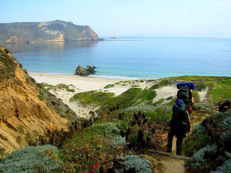 Hiking down the trail from the campground to Cuyler Harbor — on San Miguel Island, Channel Islands, California.